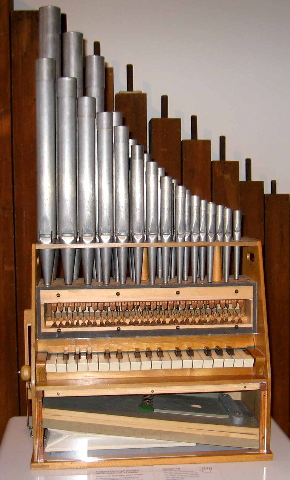 A small organ (portativ) in the Museum of Organs in Borgentreich, Germany.